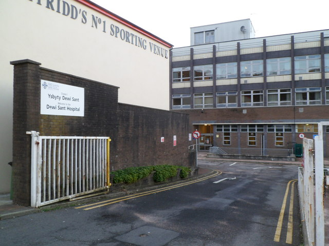 An entrance to Dewi Sant Hospital, Pontypridd